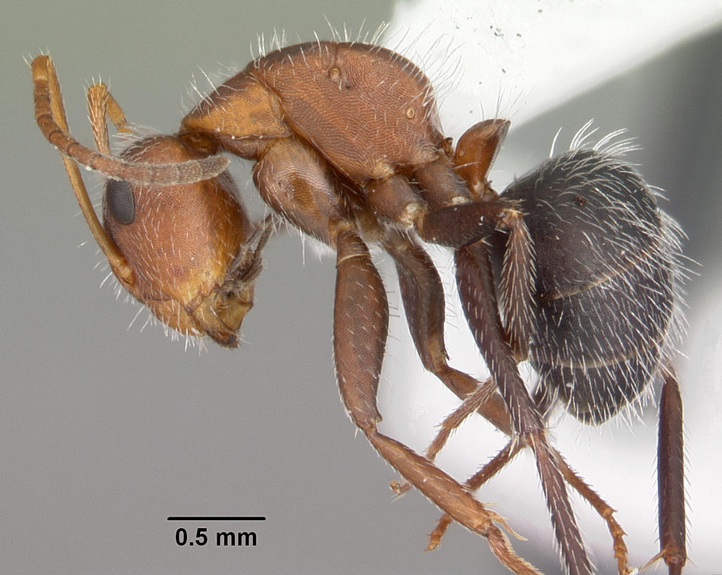 Profile view of ant Camponotus planatus specimen casent0103700.